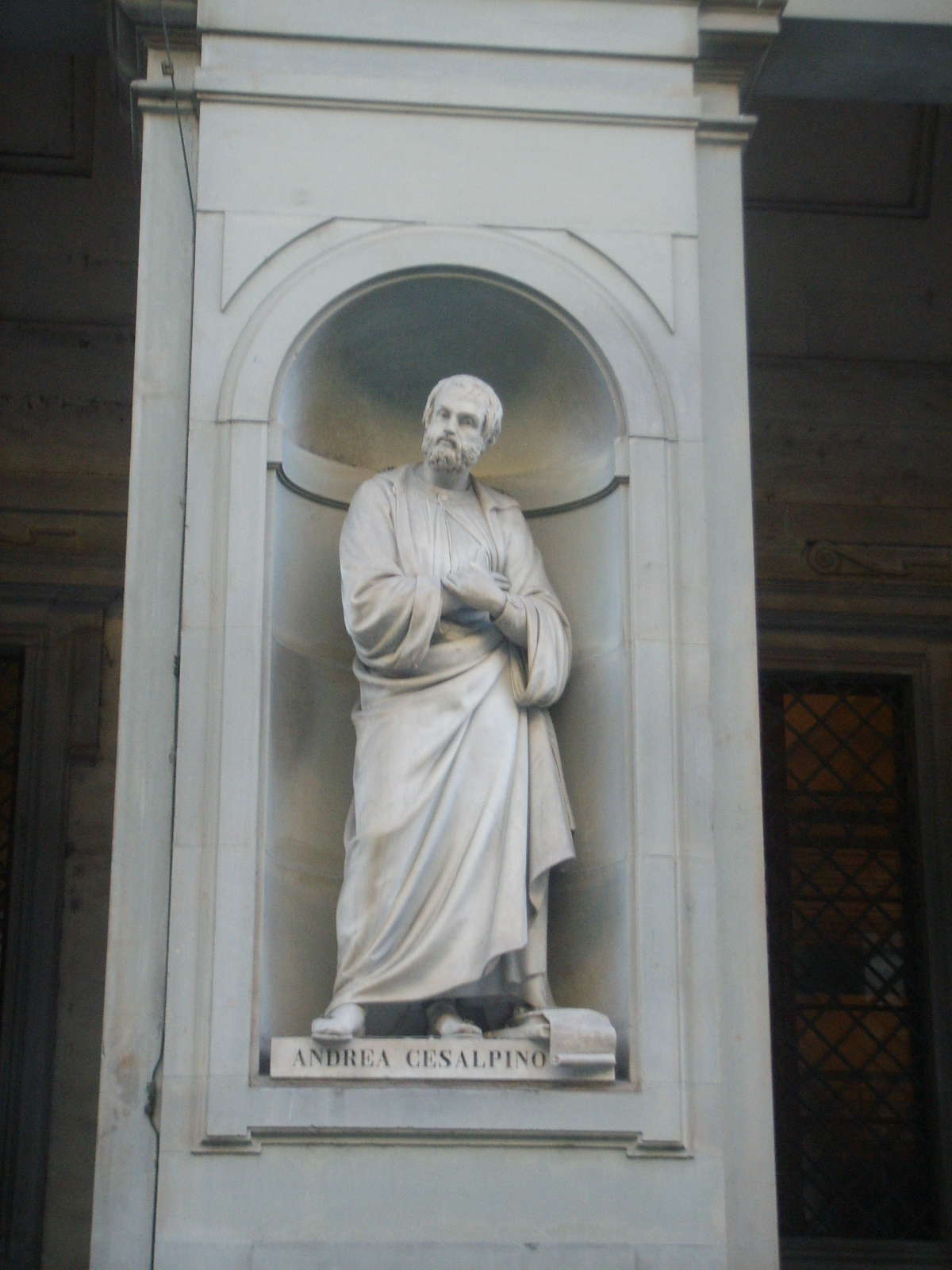 Pio Fedi (1816-1892), statue of Andrea Cesalpino. Statues of famous florentines in the Uffizi outside Gallery.